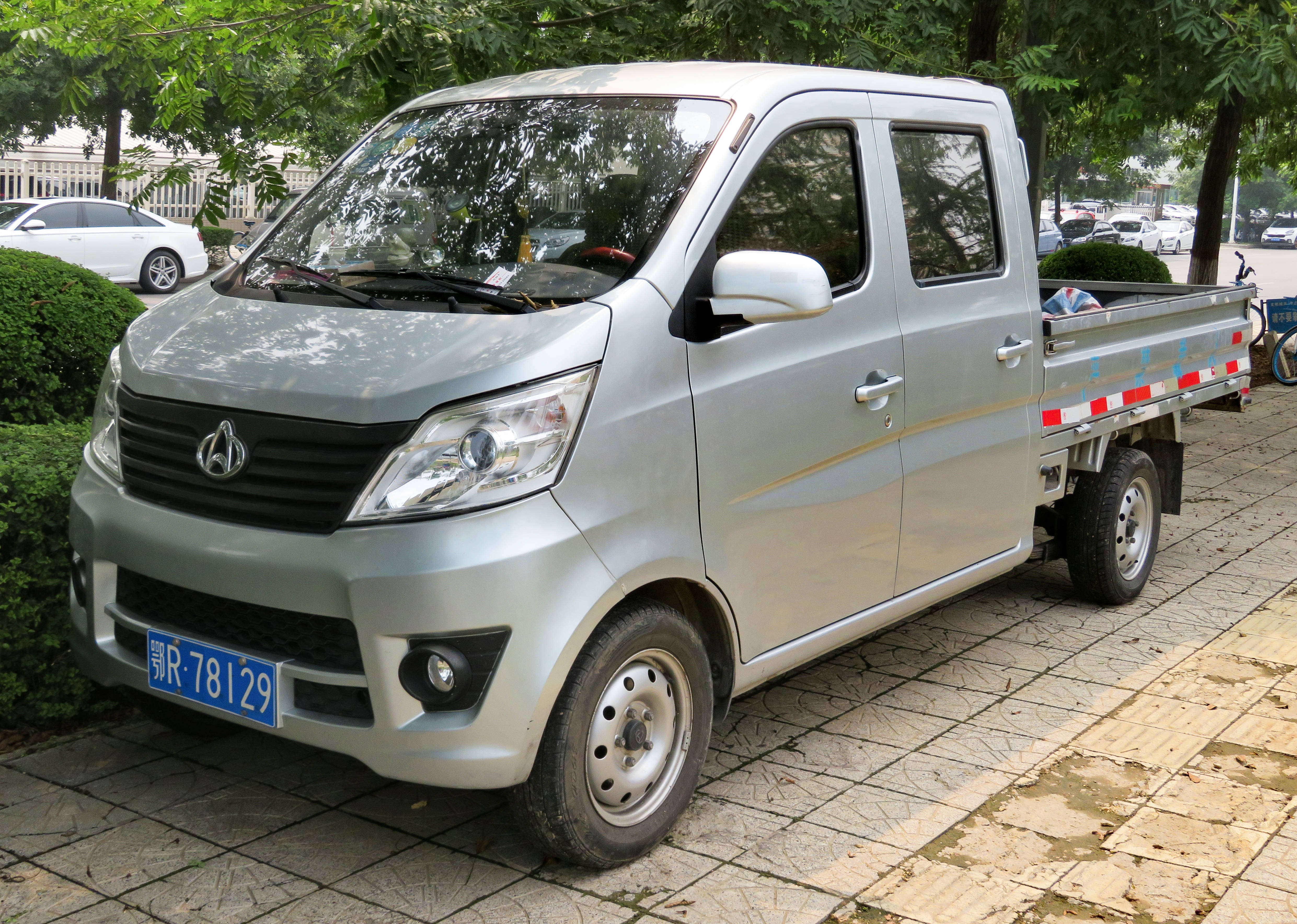 A 2018 Chang'an (Chana) Xingka S201 double cab photographed in Luolong District, Luoyang, Henan province, China